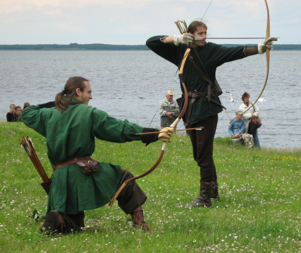 Archery historical show (near Baltic Sea, Poland)